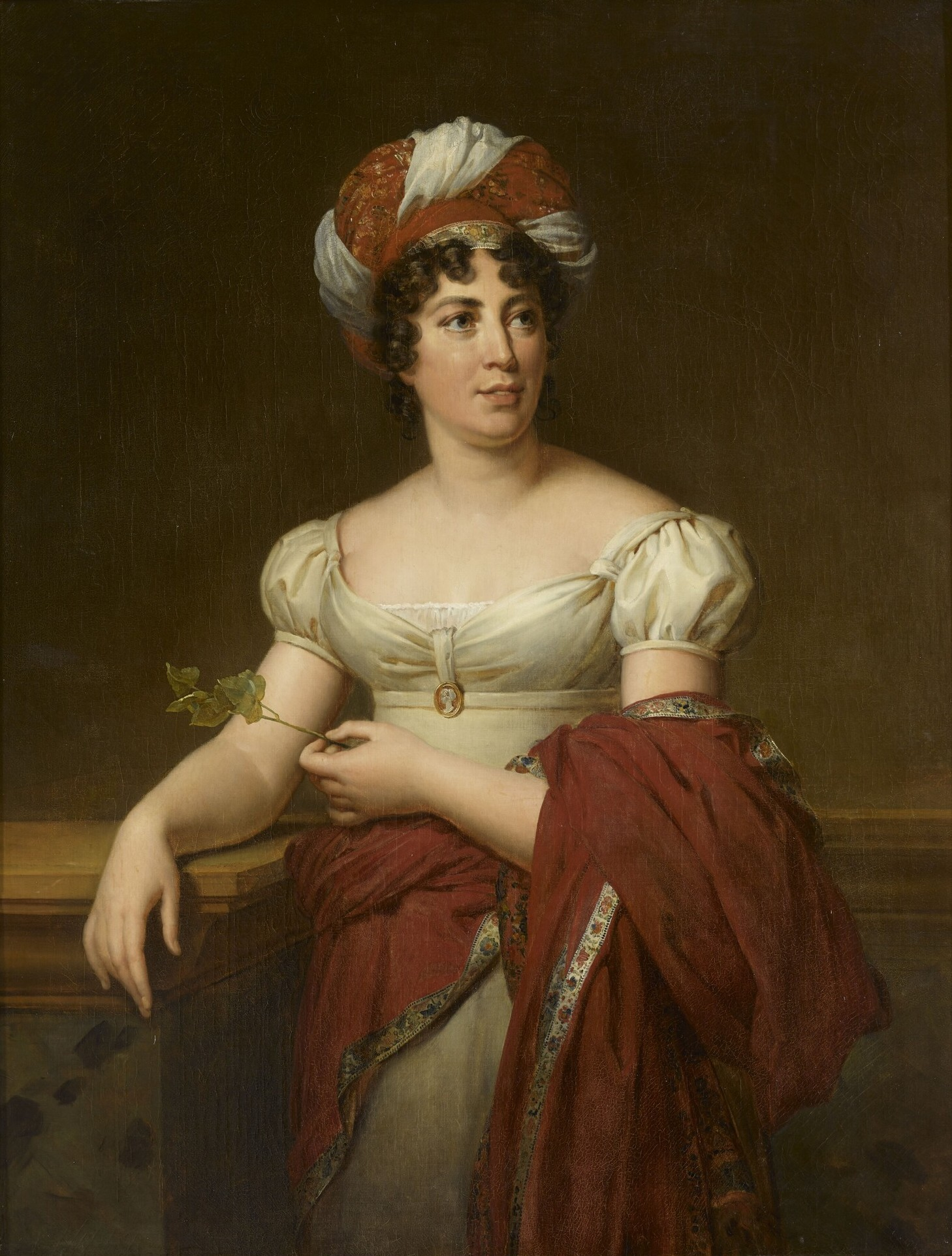 Portrait of Mme de Staël mentioned in Women painters of the world, from the time of Caterina Vigri, 1413-1463, to Rosa Bonheur and the present day, by Walter Shaw Sparrow, The Art and Life Library, Hodder & Stoughton, 27 Paternoster Row, London